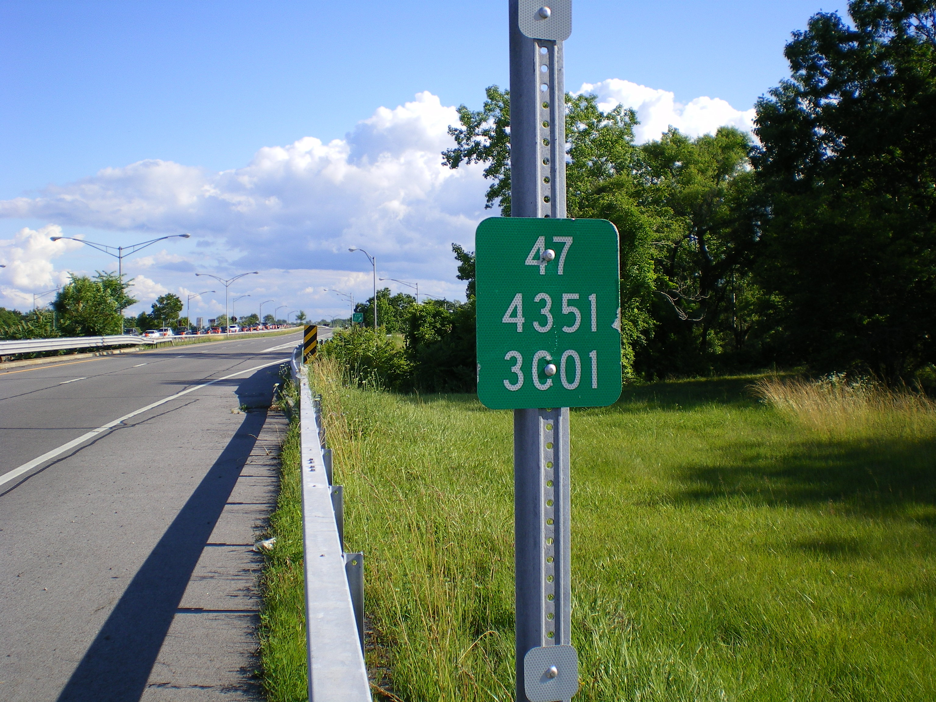 Reference marker for New York State Route 47 on New York State Route 590 southbound in Irondequoit, New York.